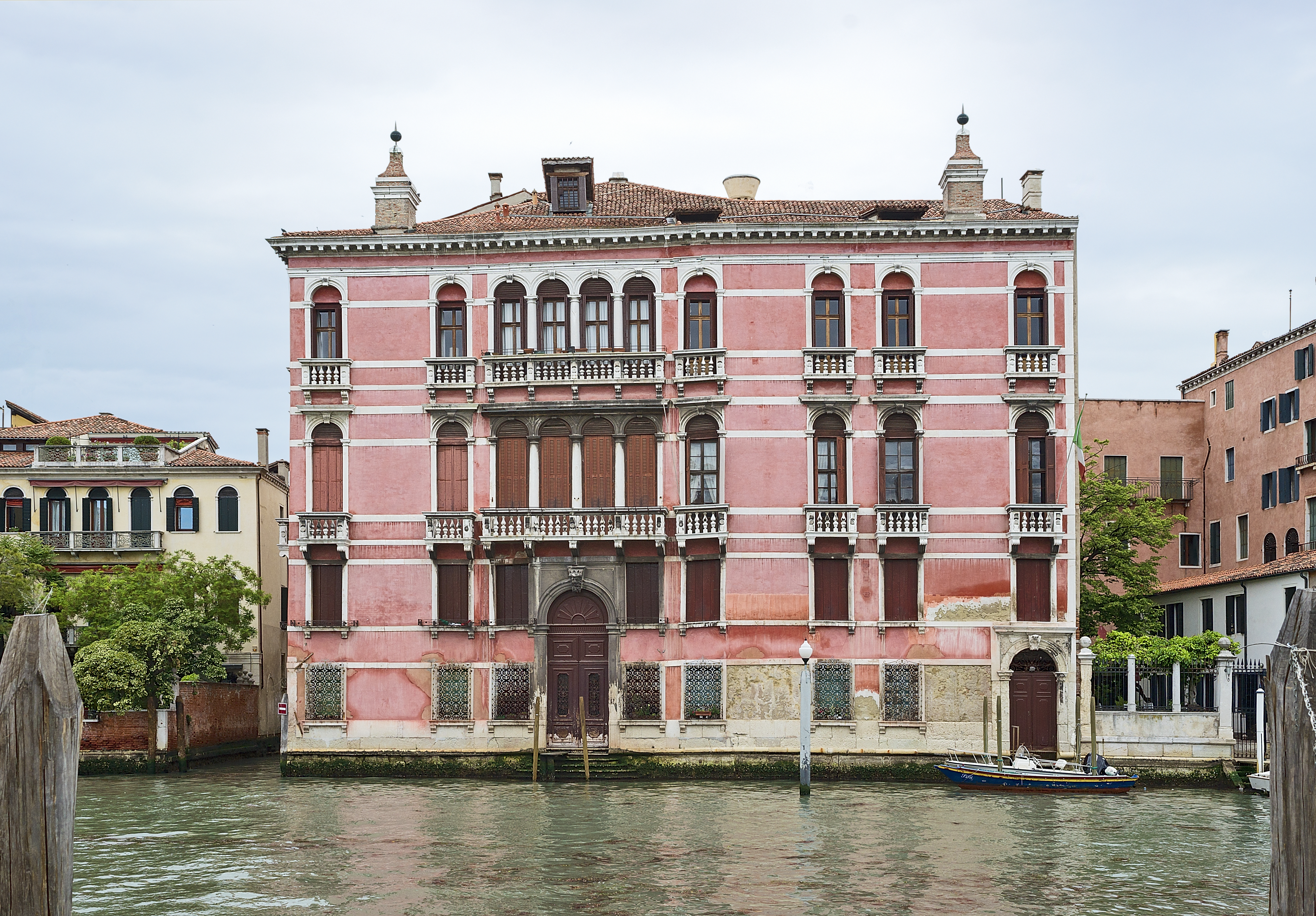 Palazzo Fontana Rezzonico Venice. Facade on Grand Canal.